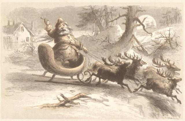 (Removed after reusableart request.)